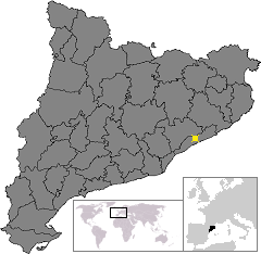 Location of Arenys de Munt, in Catalonia